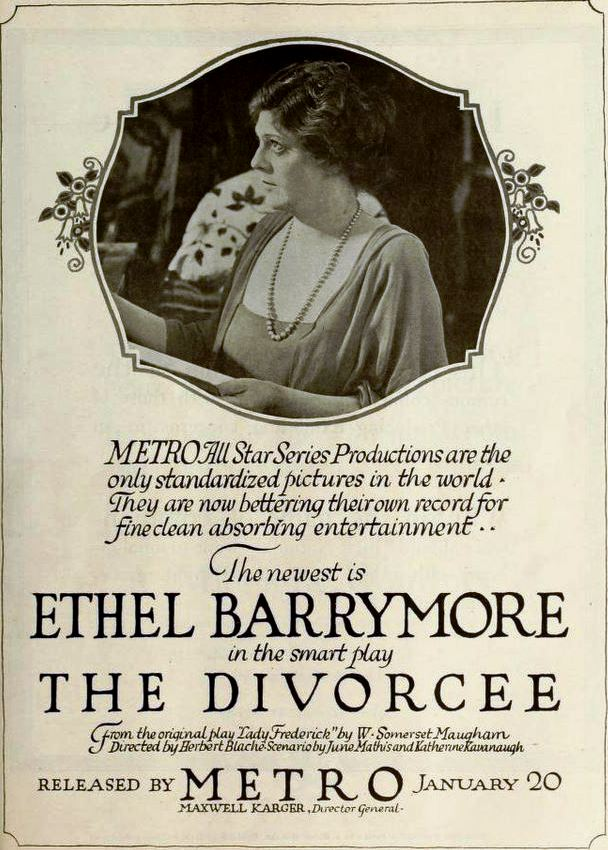 Ad for the American film The Divorcee (1919) with Ethel Barrymore, on page 435 of the January 25, 1919 Moving Picture World.